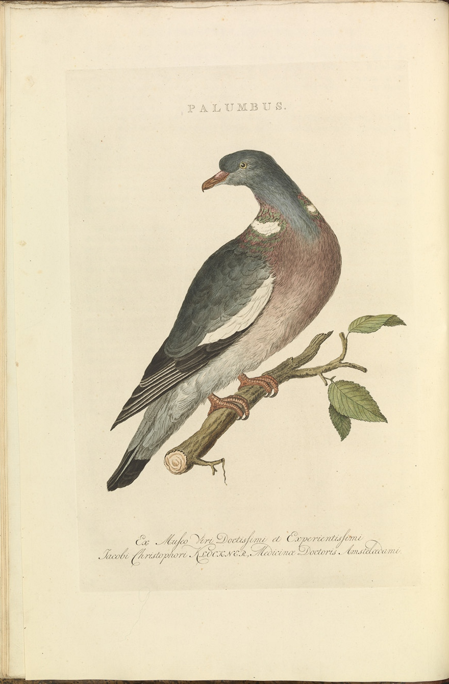 Plate 4 from the Nederlandsche vogelen by Nozeman and Sepp.